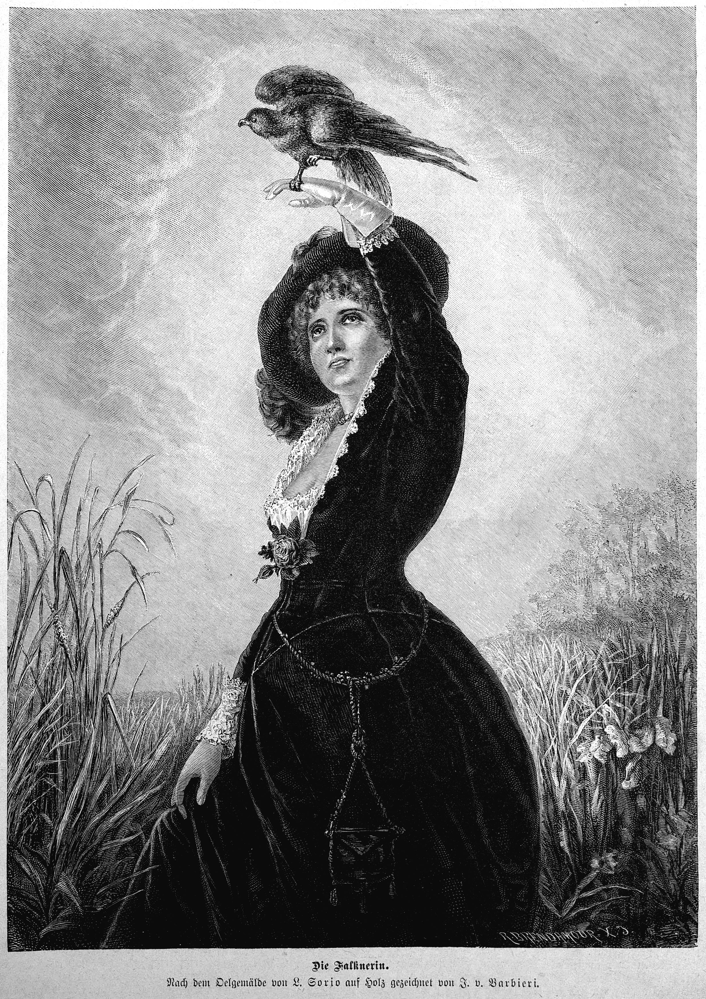 Image from page 777 of journal Die Gartenlaube, 1881.